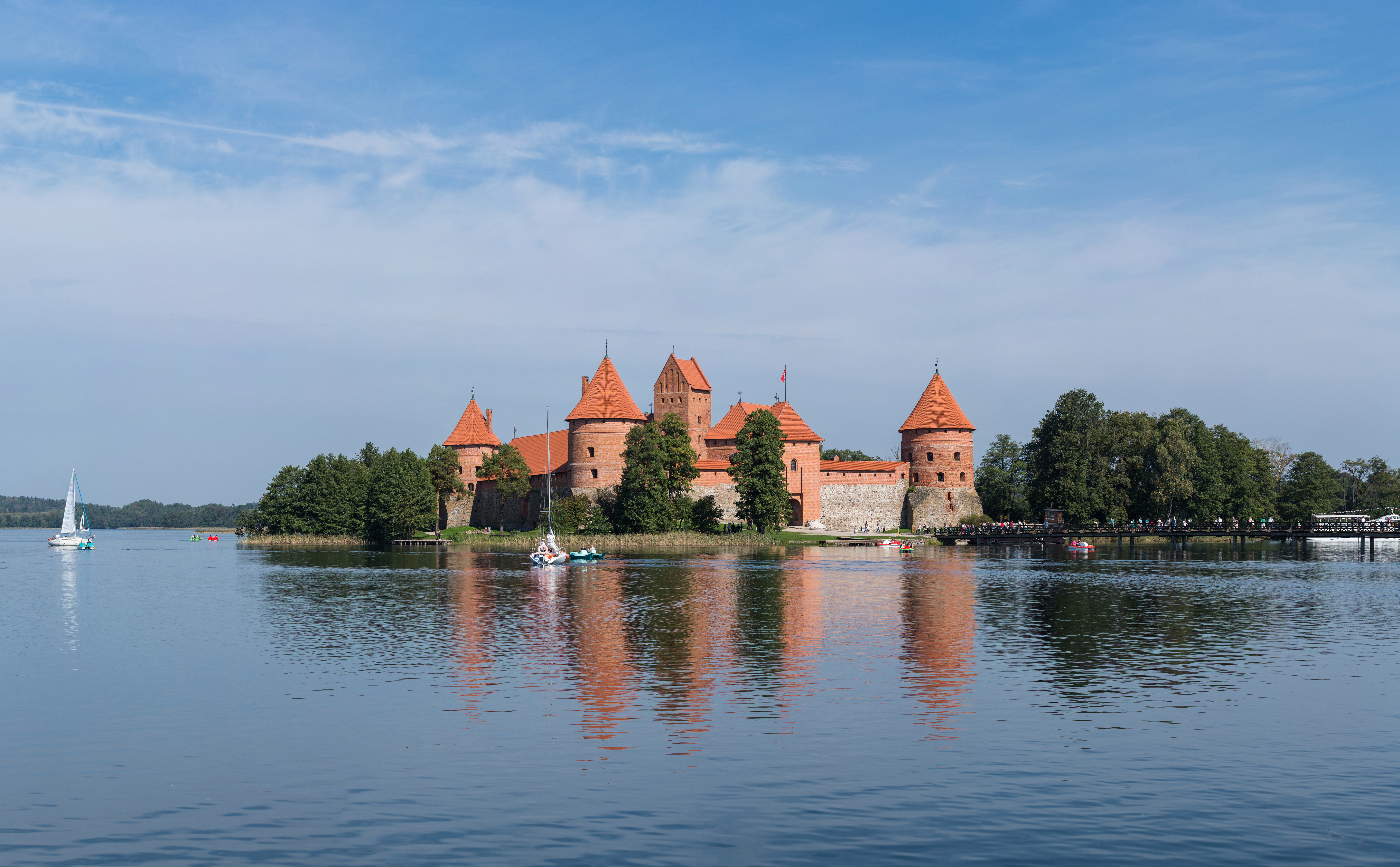 The Trakai Island Castle as viewed from the south.